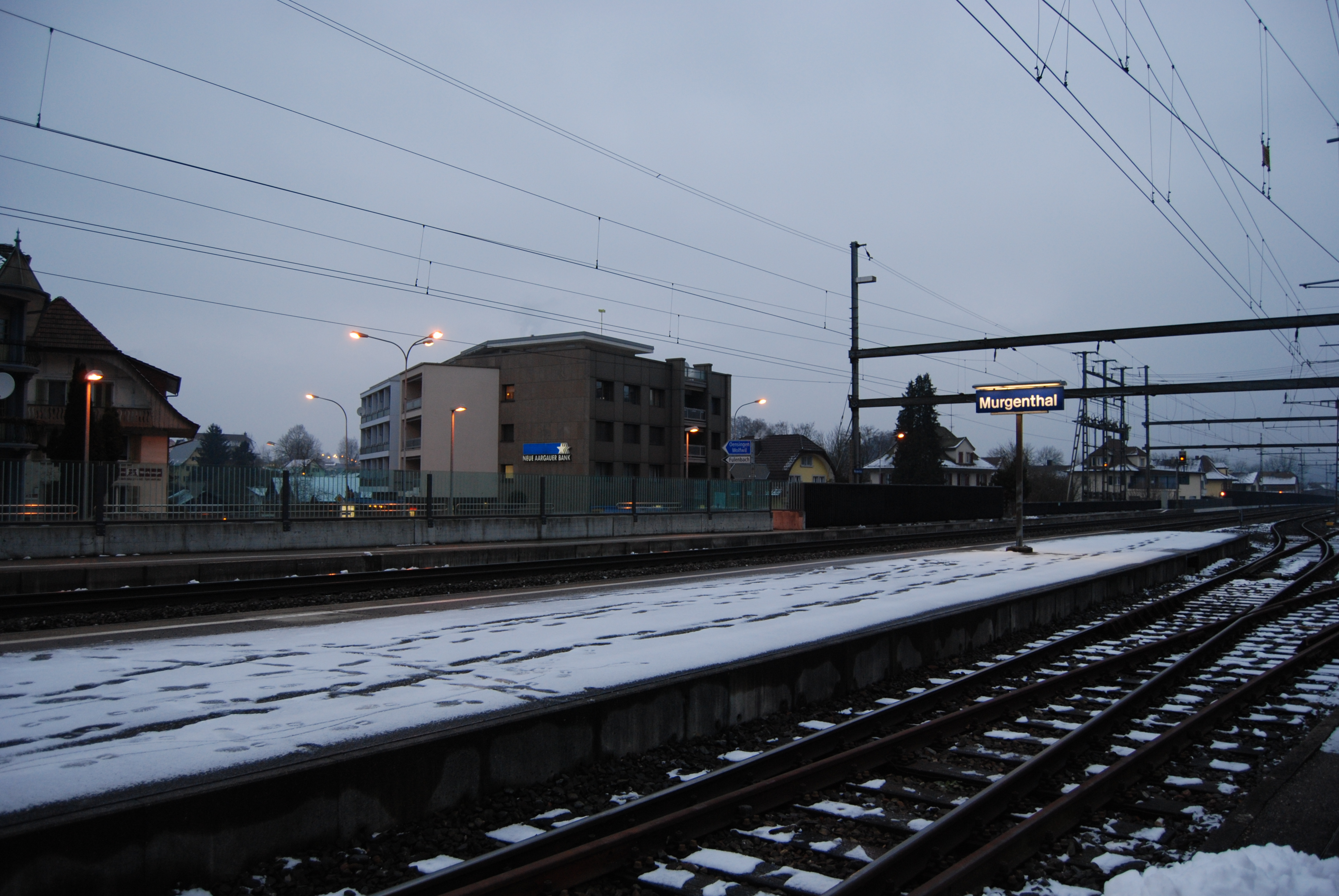 Train station of Murgenthal, canton of Aargau, SwitzerlandEsperanto: Stacidomo de Murgenthal, Kantono Argovio, Svislando